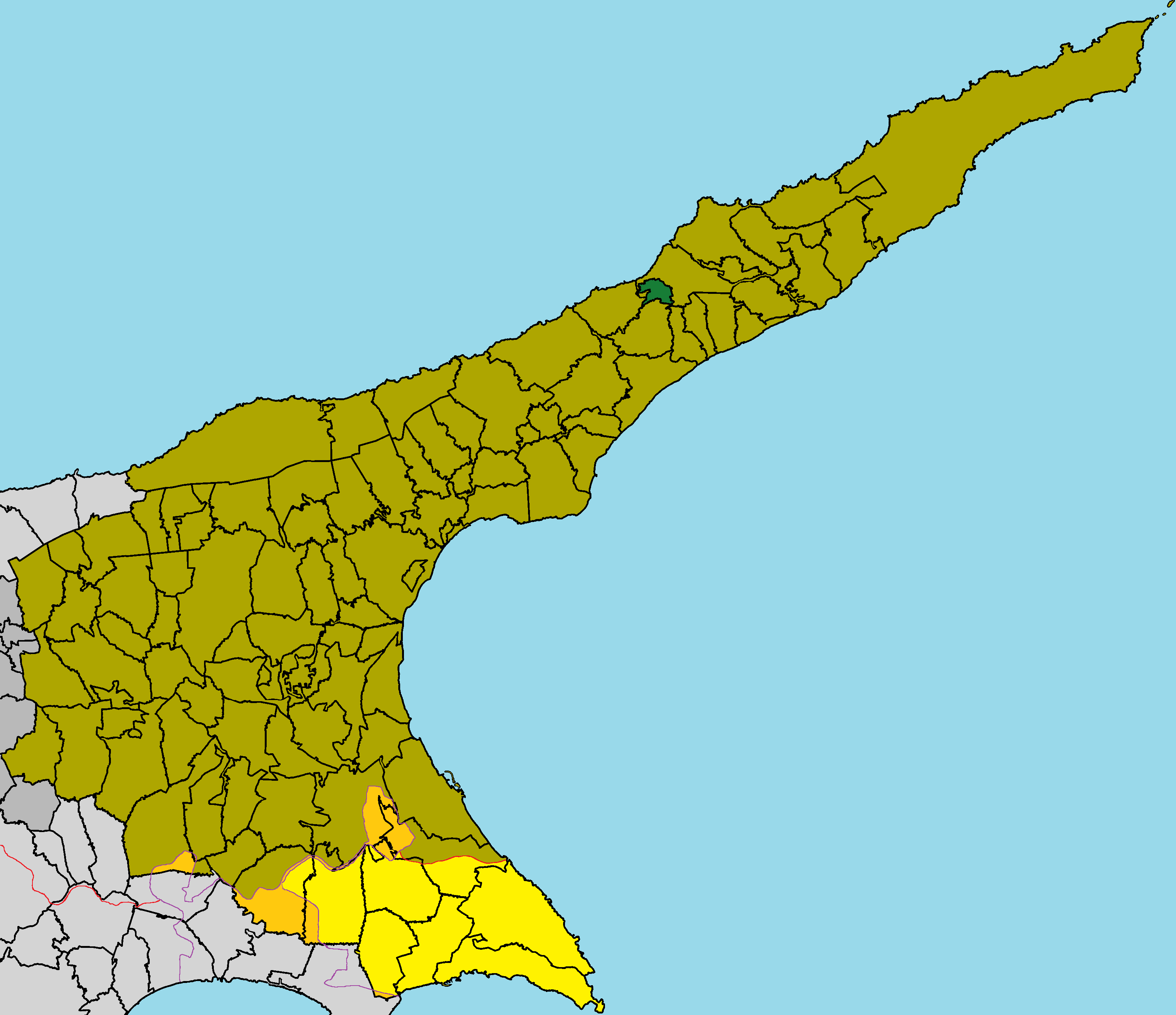 Koilanemos in Famagusta District (de jure).